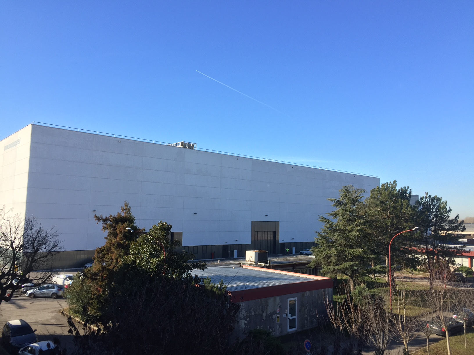 This is a picture of the Neutral Beam Test Facility building